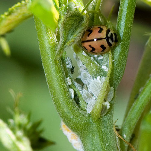 This tiny ladybug was found with these mealy bugs in our garden in Bangalore City, India